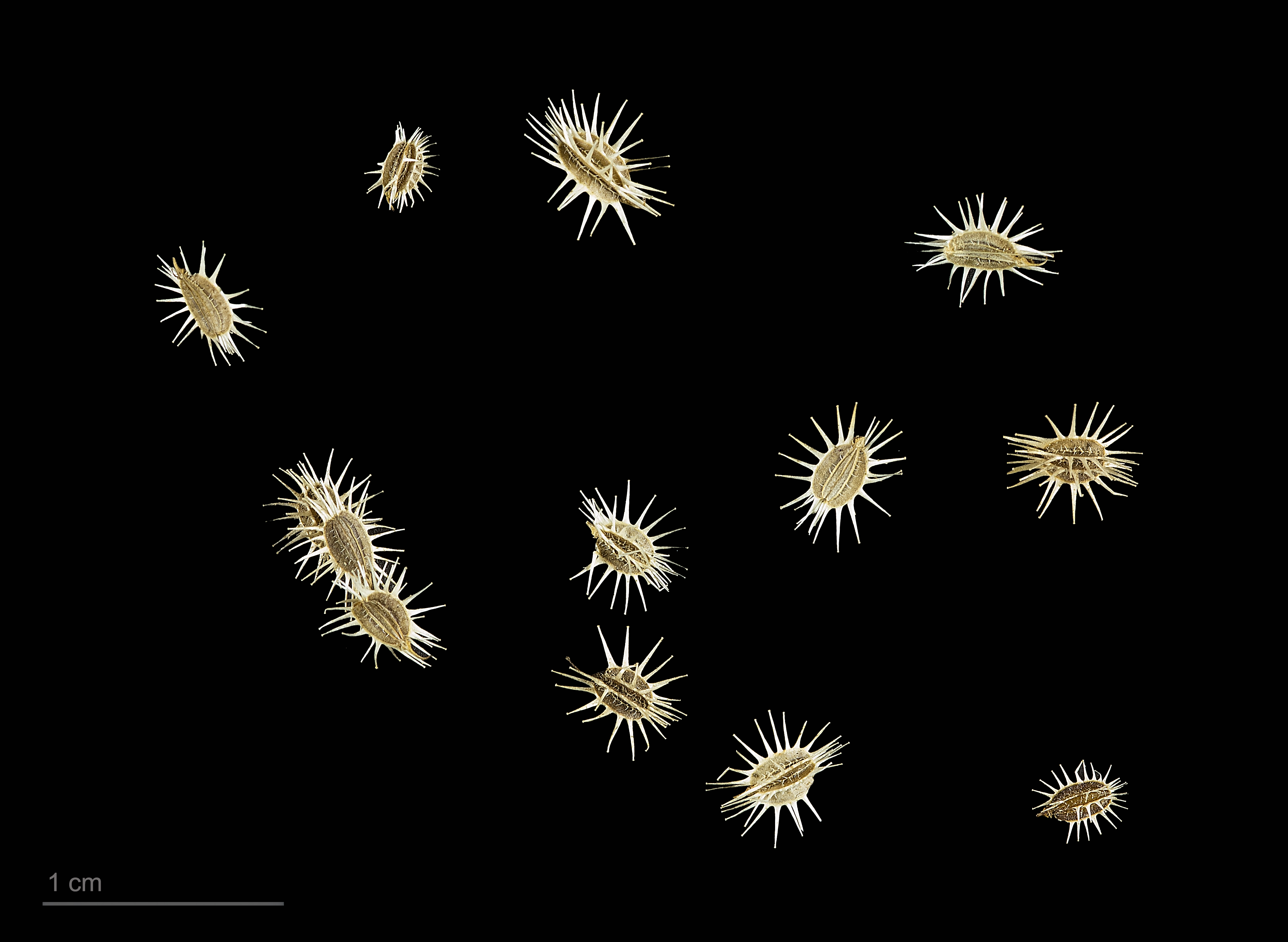 carrot, fruits and seeds